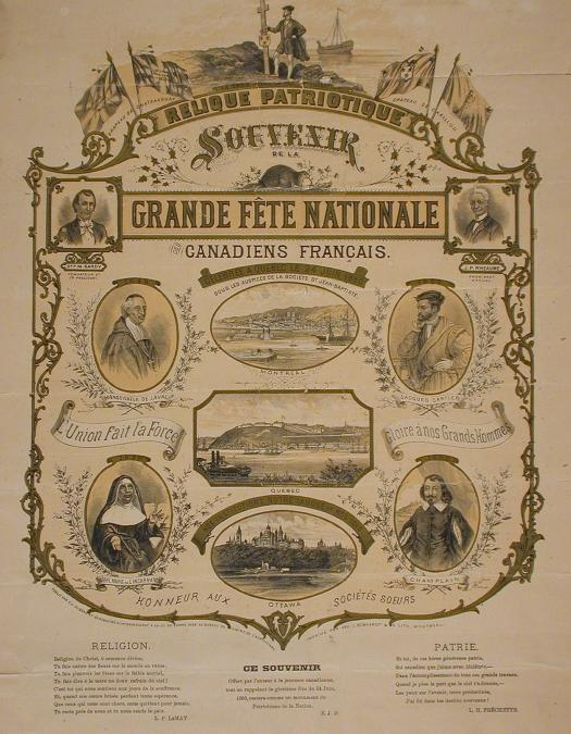 "Patriotic relic; A Souvenir of the Great National Celebration of French Canadians, celebrated at Quebec City on June 24, 1880 - Our institutions, our language, our laws - Honour to our sister societies". Print - Ink on paper - Lithography. Images of Pierre Martial Bardy (Founder and first president of the Society's Quebec City chapter), J.P. Rheaume (current president), Monseigneur de Laval, Jacques Cartier, Mère Marie de l'Incarnation, Samuel de Champlain and the cities of Montreal, Quebec City and Ottawa.